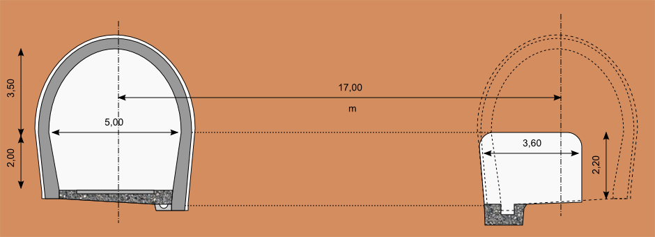 Simplon tunnel - mining